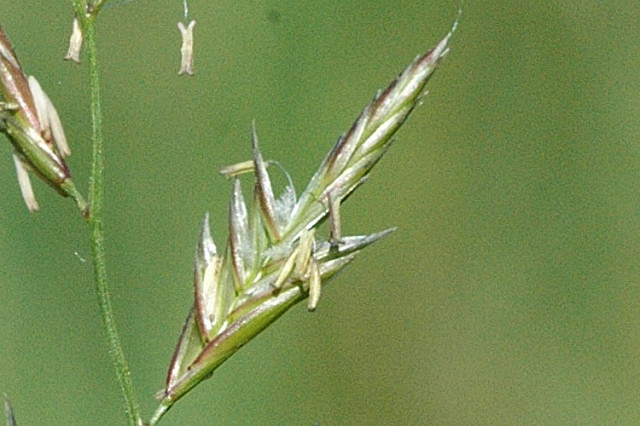 Picture taken in Commanster, Belgian High Ardennes . Species: Bromus hordeaceus